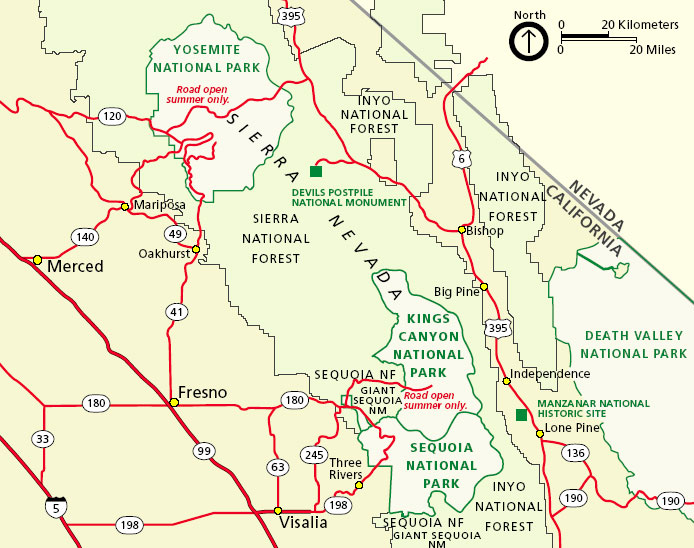 Regional map of Yosemite National Park, Sequoia National Park, and Kings Canyon National Park — in the Sierra Nevada, California. Moved here as part of Wikivoyage migration.